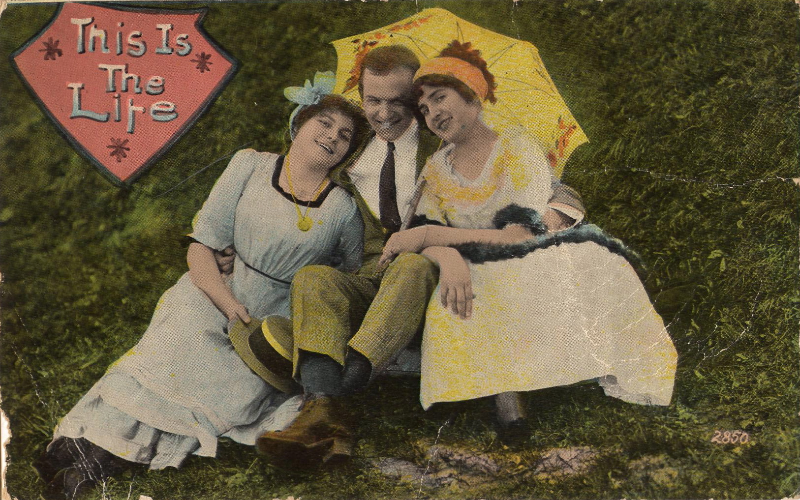 Postcard "This Is The Life", showing man between two women; the three are seated out-of-doors, all smiling, dressed in fashion of early 20th century. One woman holds a yellow parasol, the other the man's straw boater hat. Note: The card is hand-tinted (not a true color photograph).